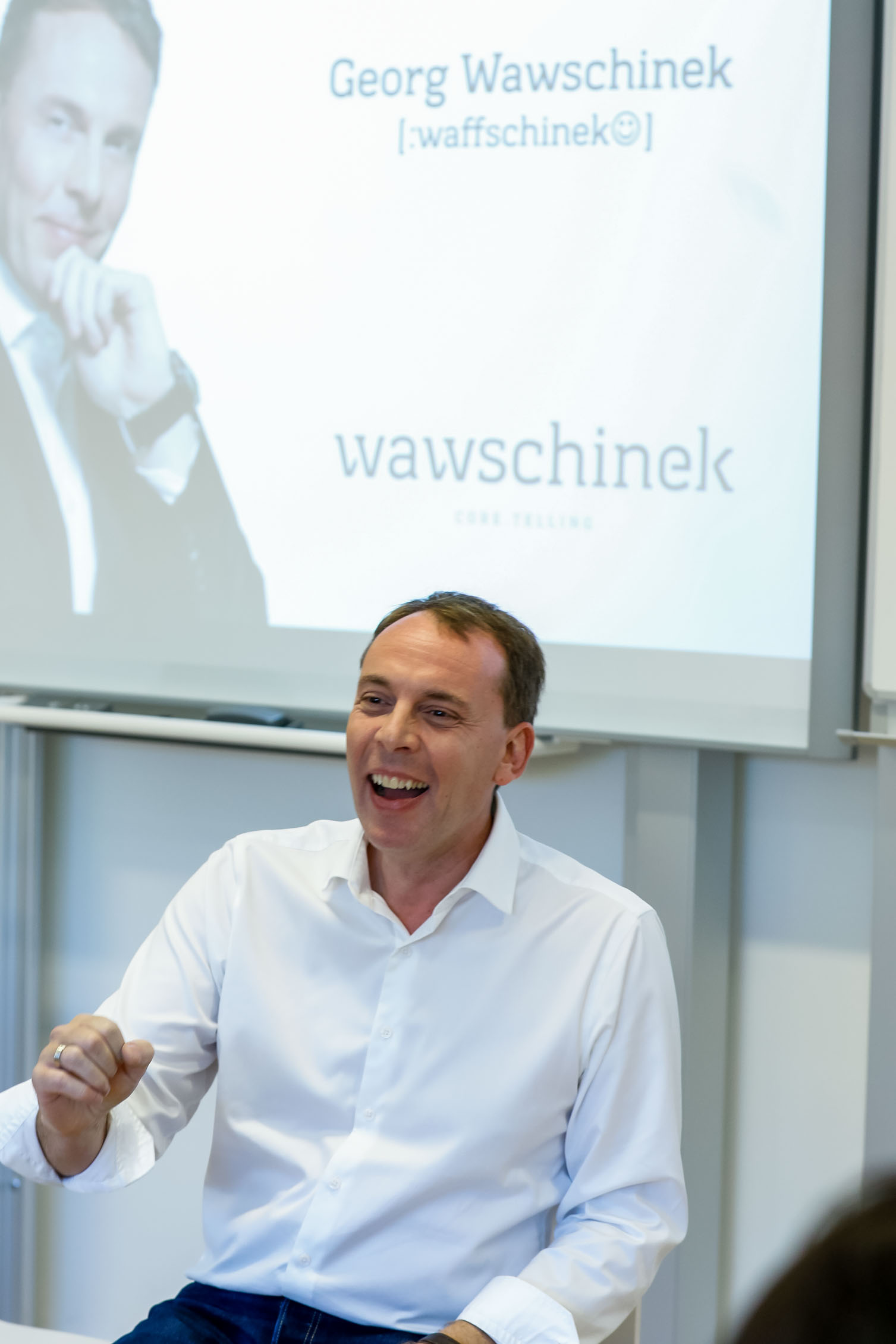 Georg Wawschinek at "Humorlab" founded by Dr. Roman F. Szeliga.